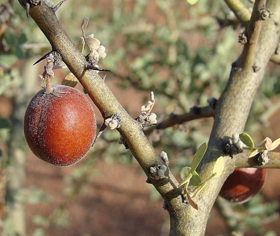 Edible fruit known as Chañar or as Kumbaru. Widespread, here in La Rioja Province, Argentina. In context at